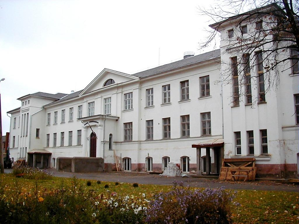 Kameņeca Palace